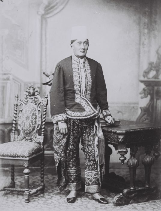 Portrait of a Javanese Governor in gala-dress.